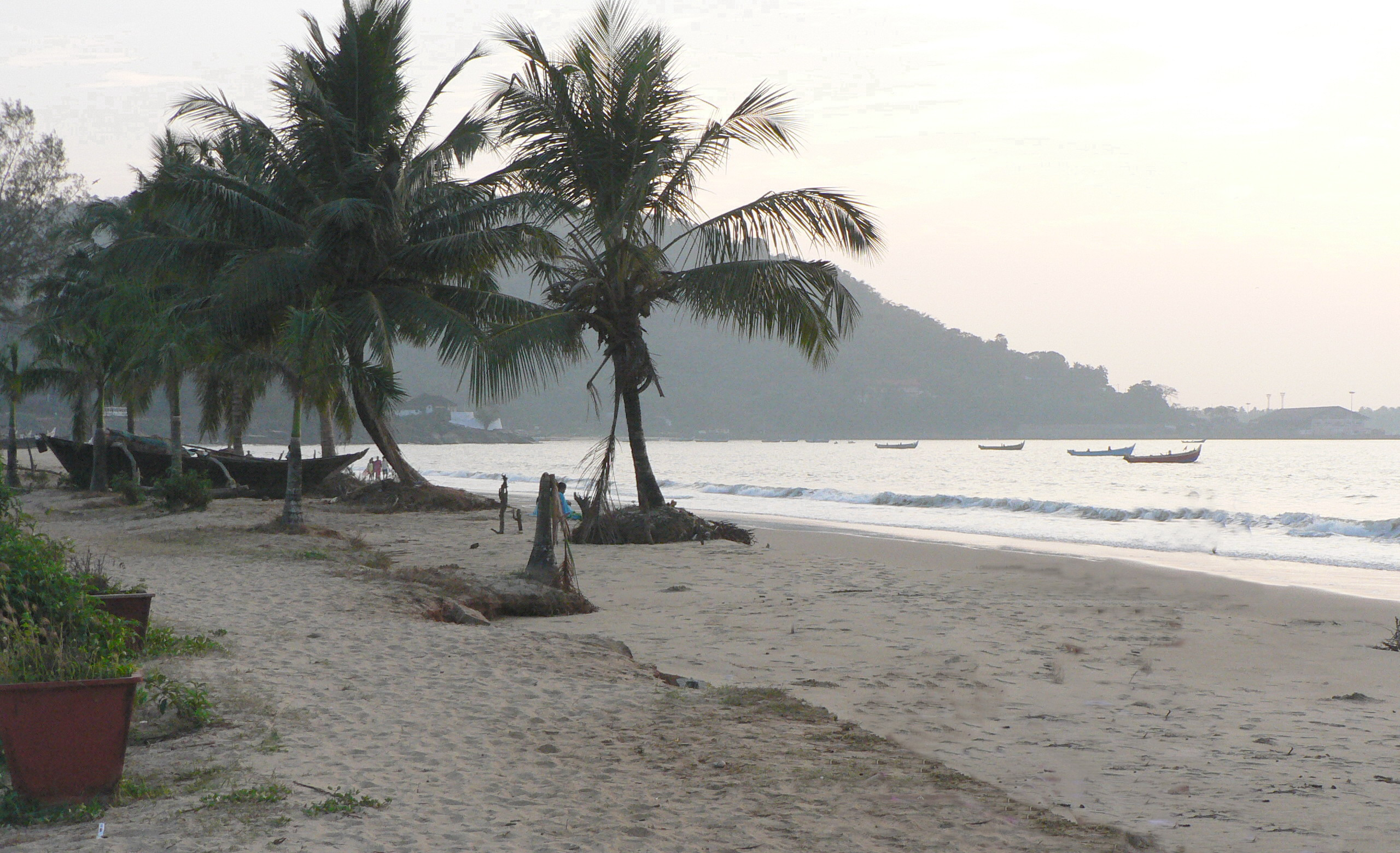 Coconut palms on the beach, Karwar.